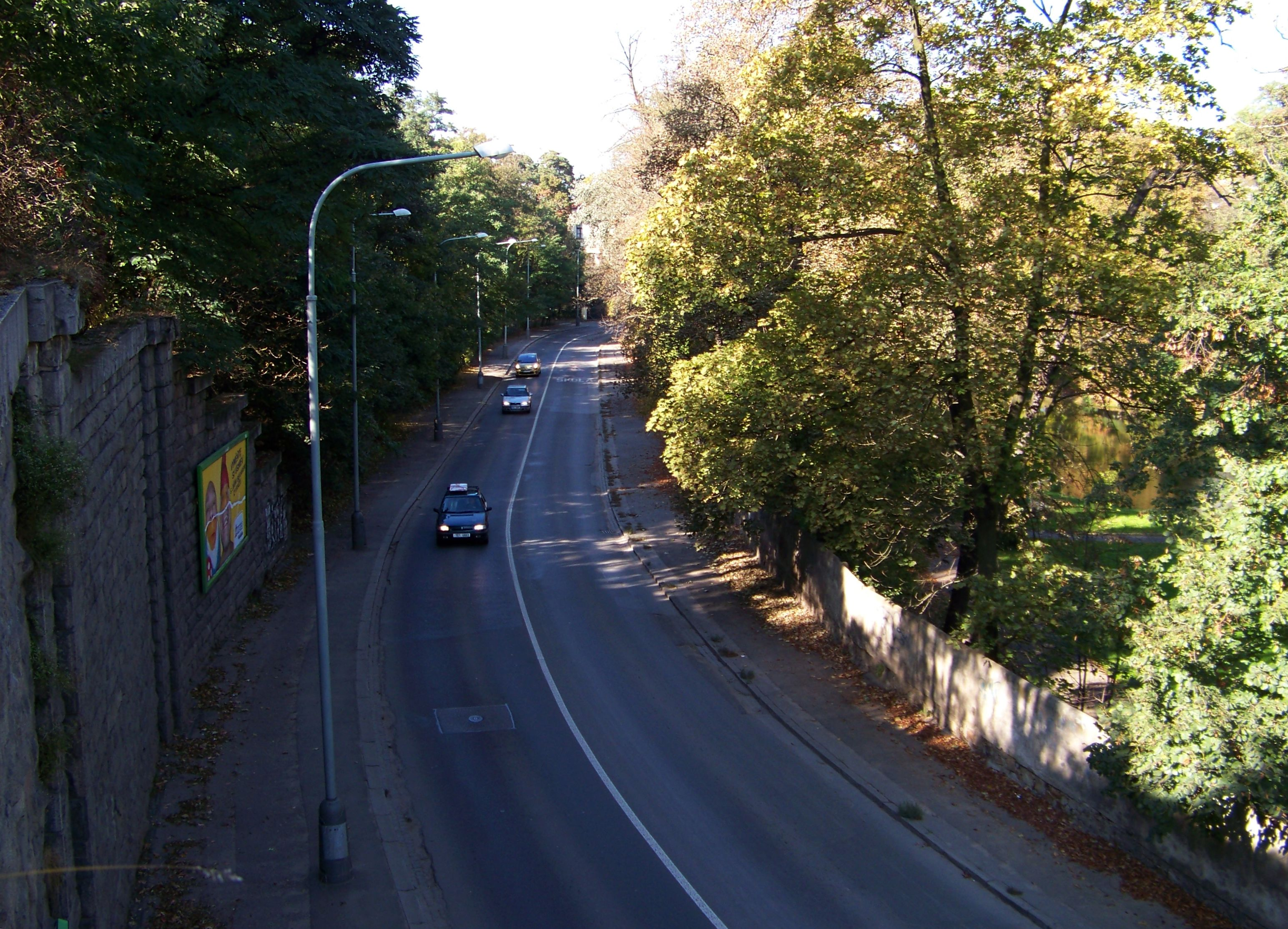 Prague-Malešice and Hrdlořezy, the Czech Republic. Pod Táborem street, a botanical garden on the right.